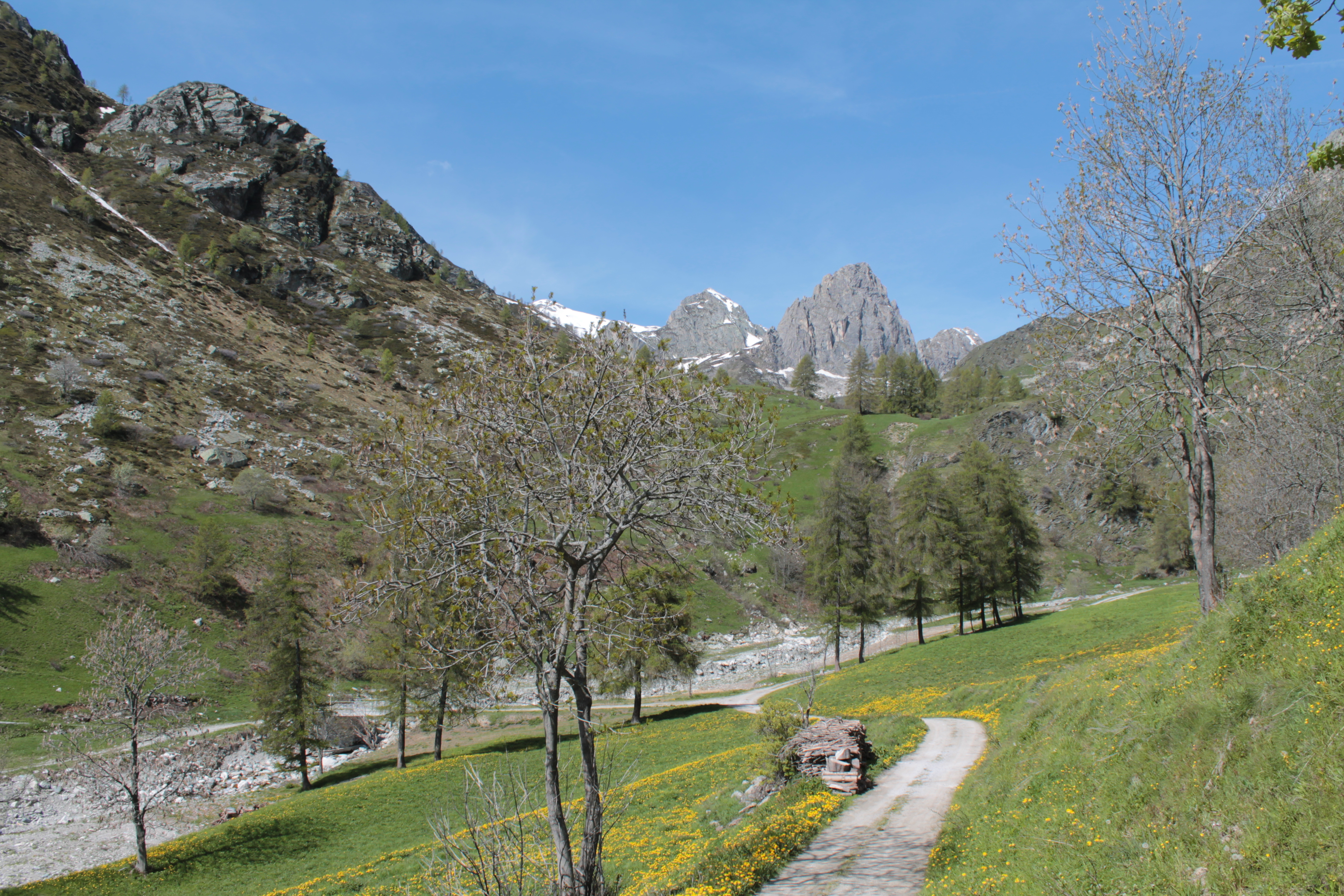 View of Valle Grana, Castelmagno (Italy)